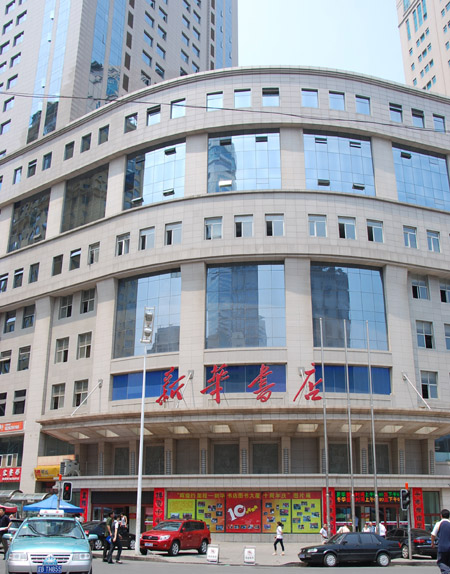 Xianhus Bookstore, Dalian, China